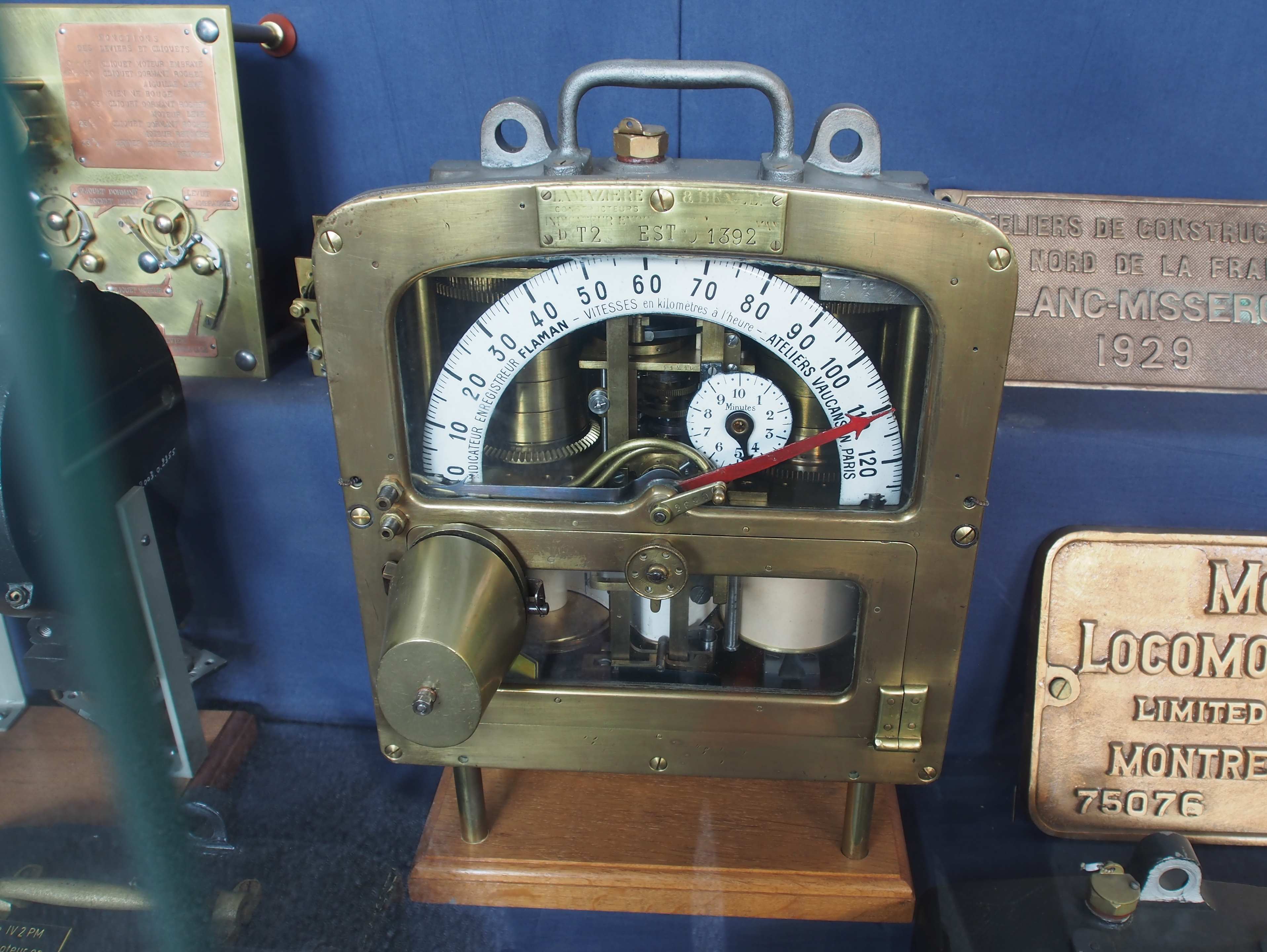 Photographed in Mulhouse, France.